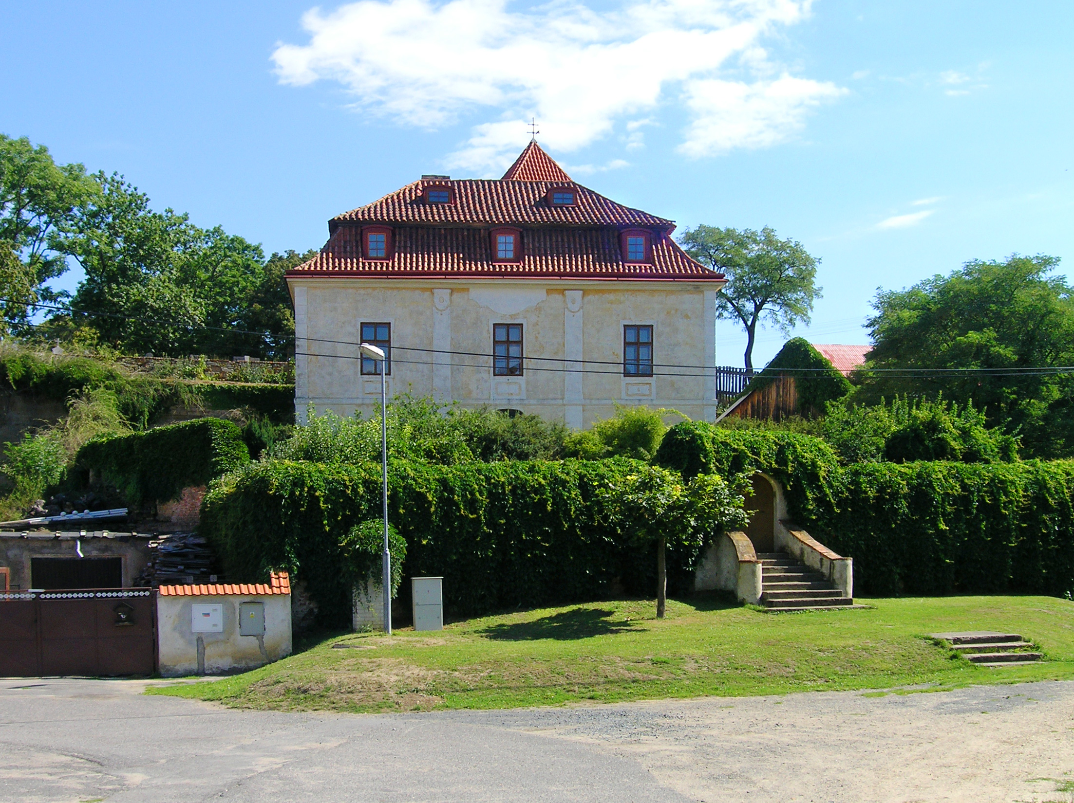 Presbytery in Sluhy, Czech Republic